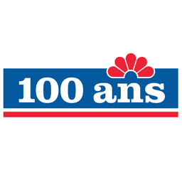 Modified version of Lafleur brand logo for the centennial of the brand in 2012. (French version.)